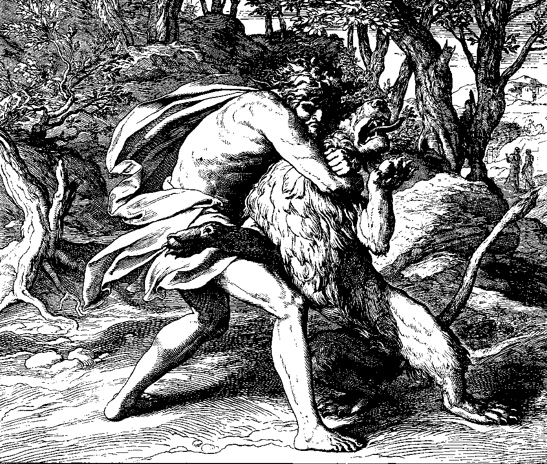 Woodcut for "Die Bibel in Bildern", 1860.